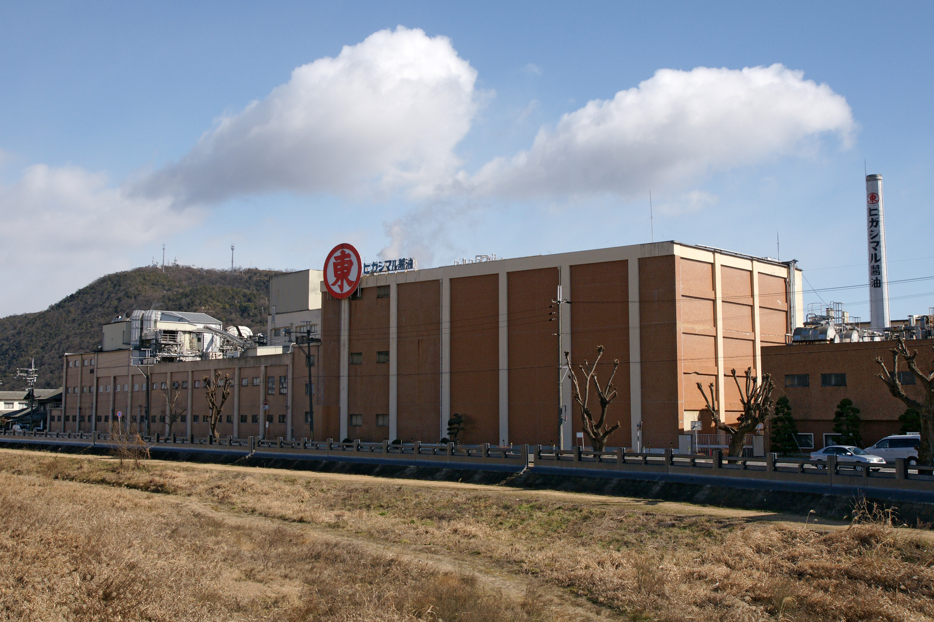 Higashimaru Shoyu Co., Ltd. Headquarters in Tatsuno, Hyogo prefecture, Japan